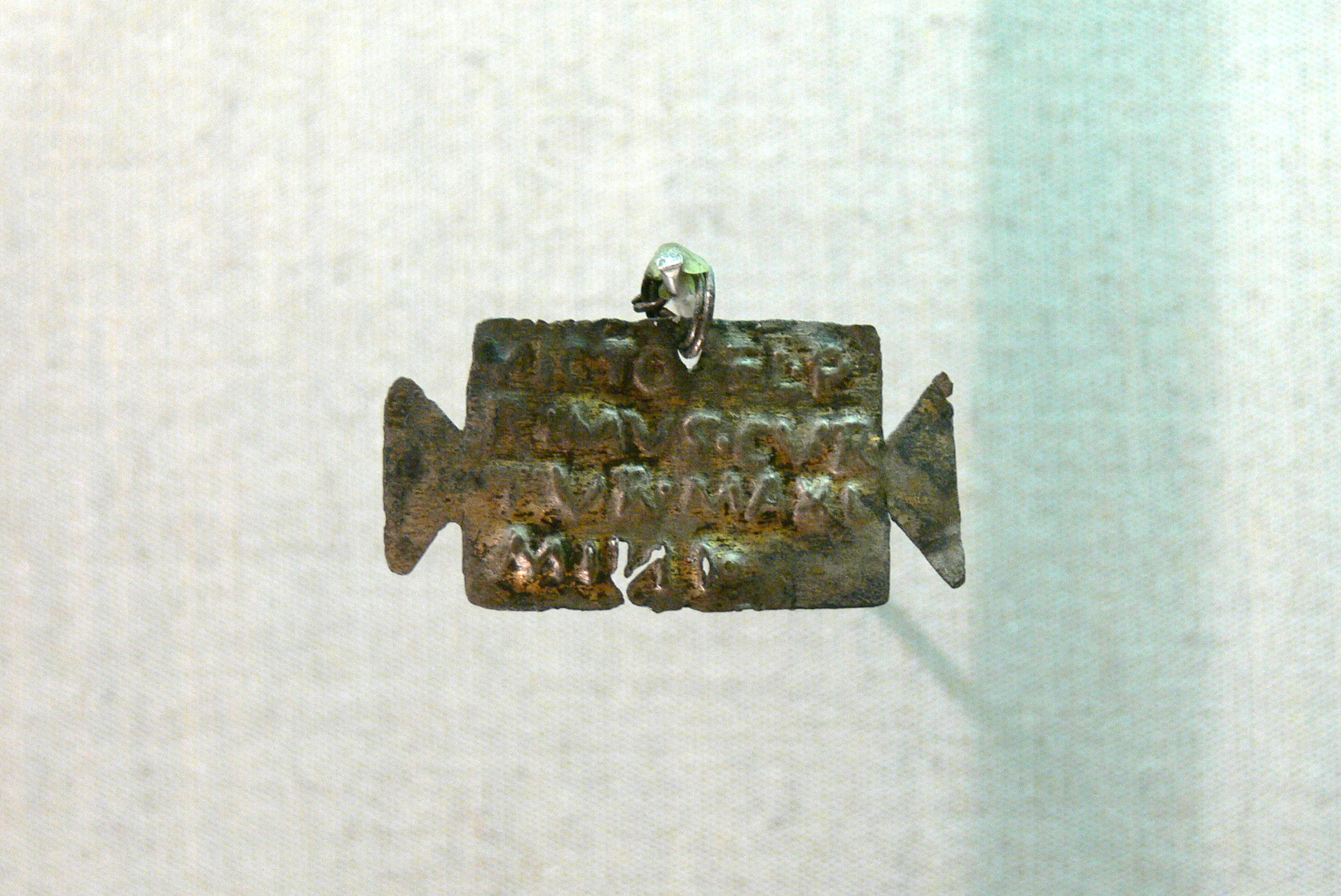 Weißenburg ( Bavaria ). Roman Museum: Votive plaque for Victoria, set by Flavius Primus, curator of the Turma Maximini.